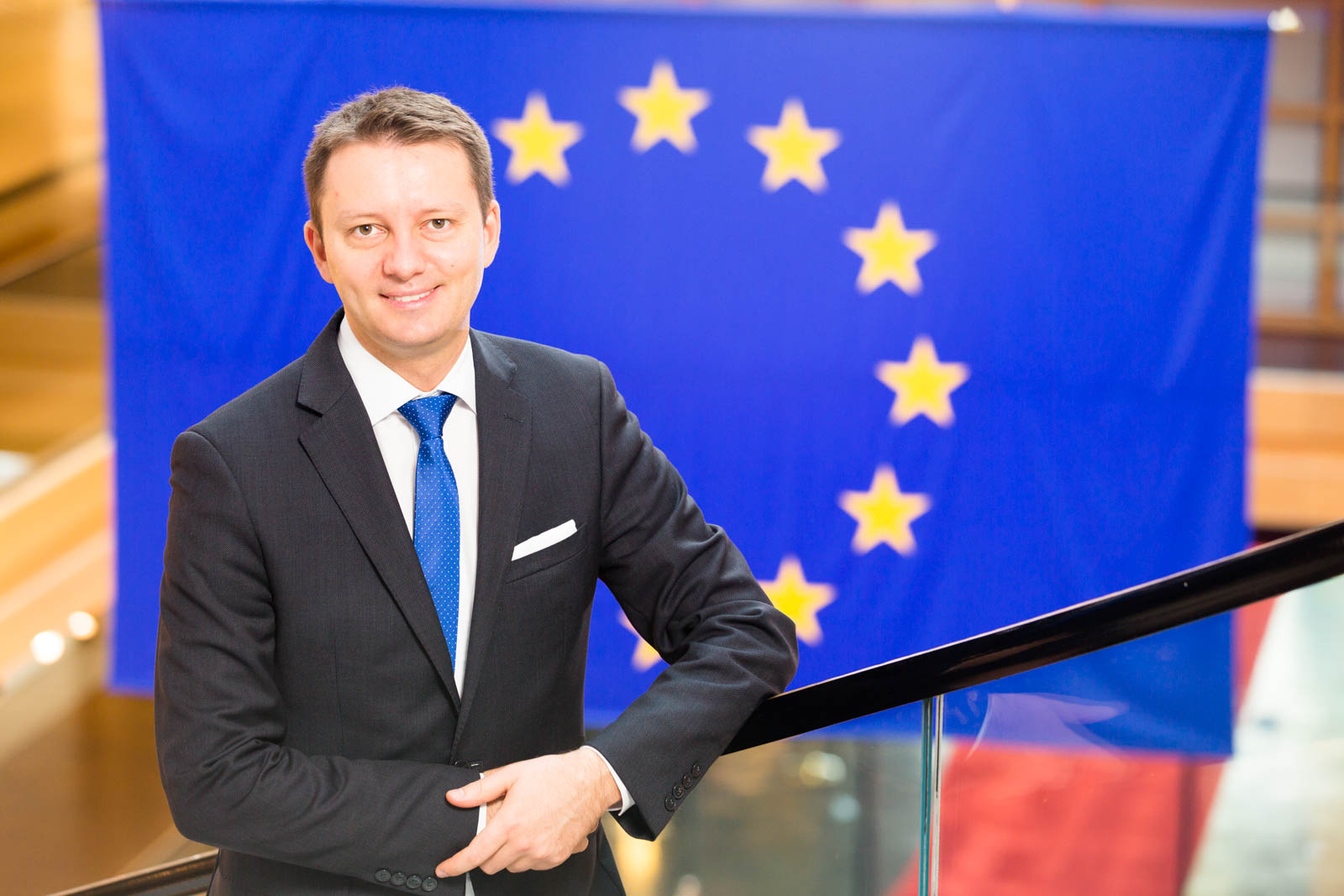 Siegfried Mureșan in the European Parliament in Strasbourg